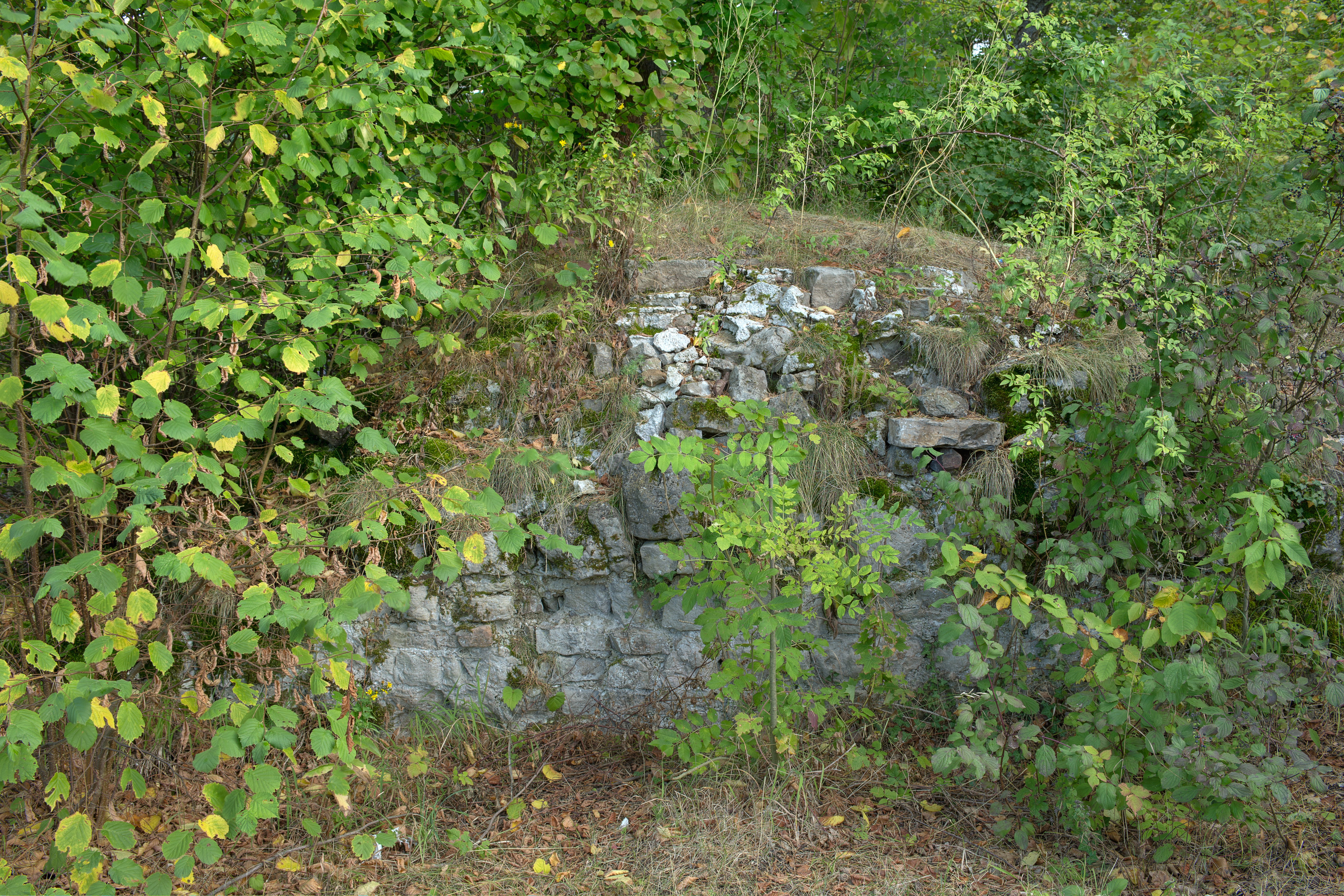 Mauerreste der Burgruine Bilstein bei Eschwege.